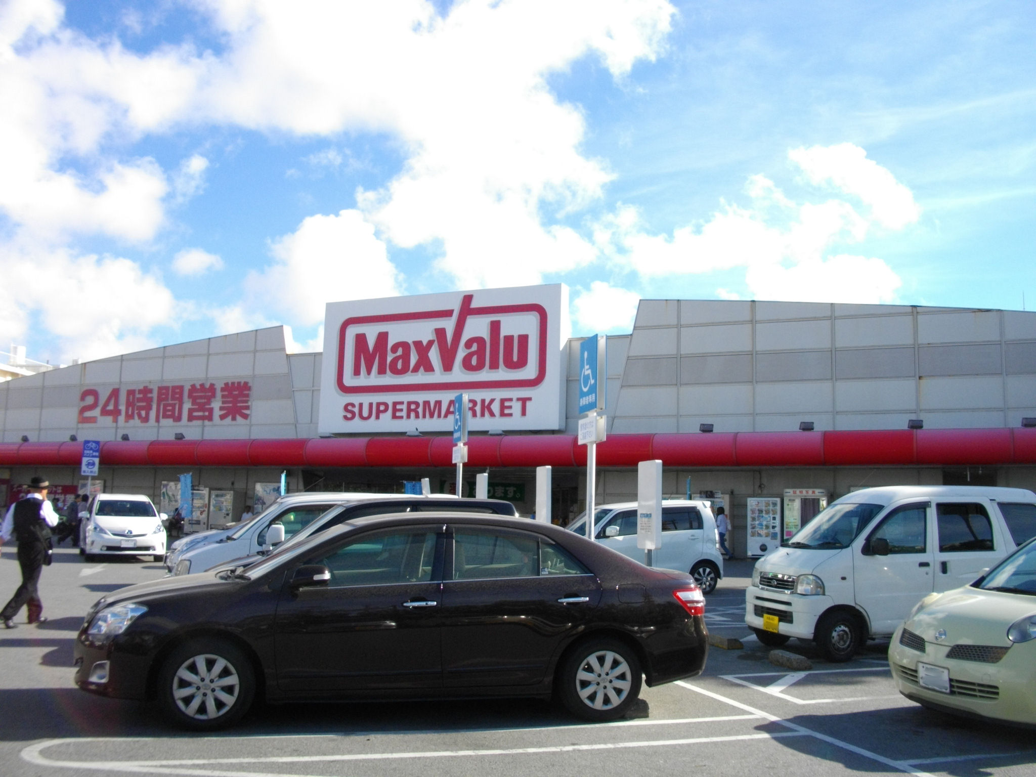 AEON Town Aja